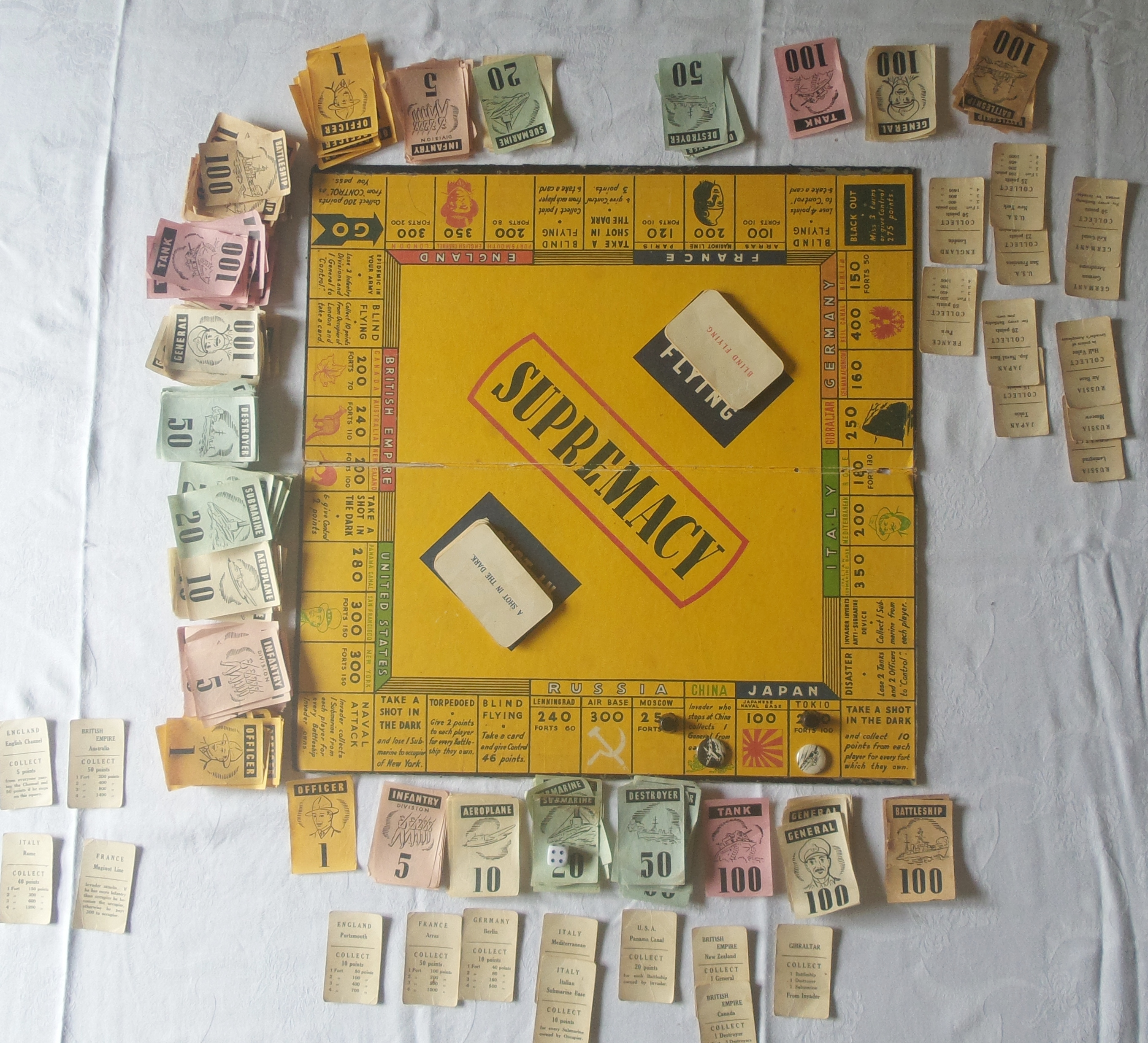 The Supremacy board game is a World War II themed board game that was produced c.1940. It is based on a Monopoly format.